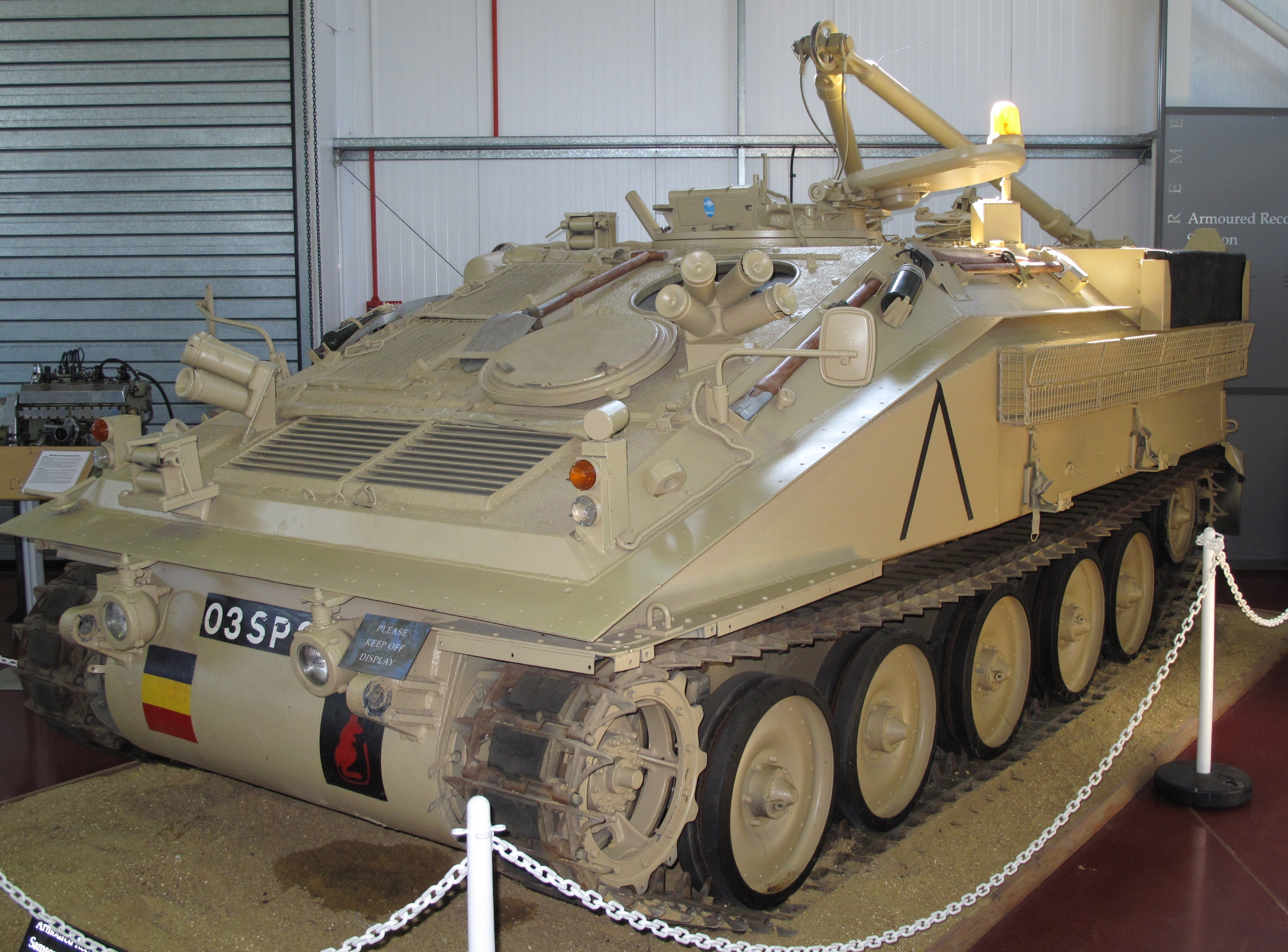 The recovery version of the CVR(T) range of combat vehicals